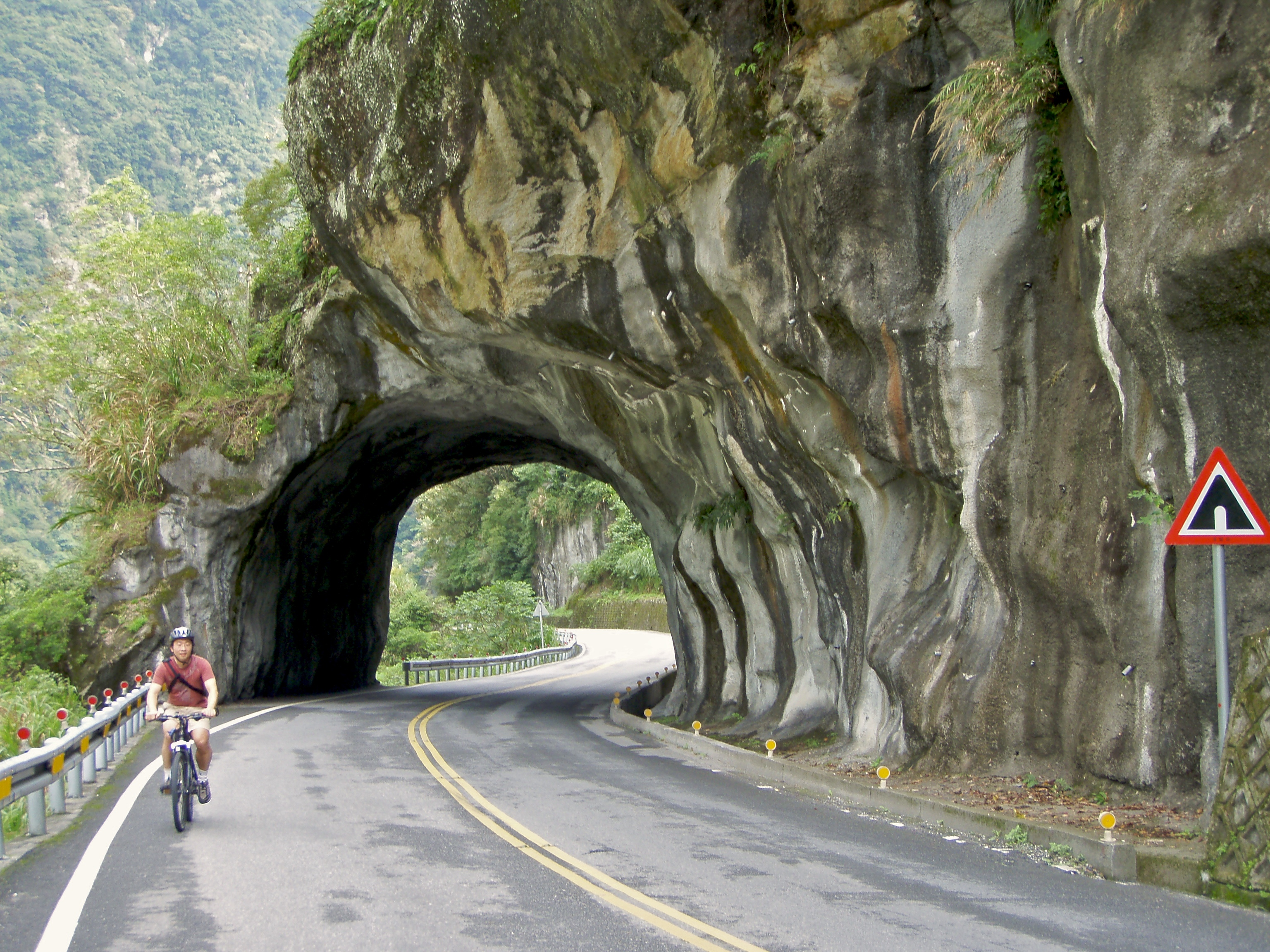 Spectacular view of the Taroko Gorge while biking on the Central Cross-Island Highway in Taiwan